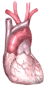 Organ adapted for use in Häggström diagrams. Fits with Arterial System.png.